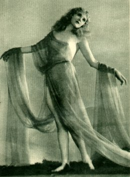 Margaret Livingston. Photo by William Mortensen, as published in June 1927 "Artists & Models" magazine. Scanned by Infrogmation (talk) from original copy of magazine published with no copyright notice. Original caption: "An etereal representation of the spirit of spring is achieved by golden-haired Margaret Livingston, a star of the Fox Film forces. — Photo by Wm. Mortensen" Public domain by US law as material published 75 + years ago with no assertion of copyright.